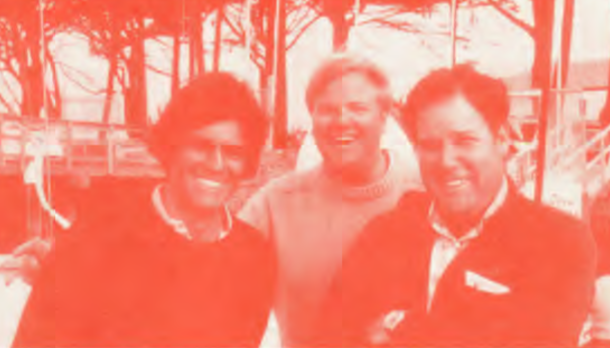 Vince Brun, Robbie Haines and Robert Kinney